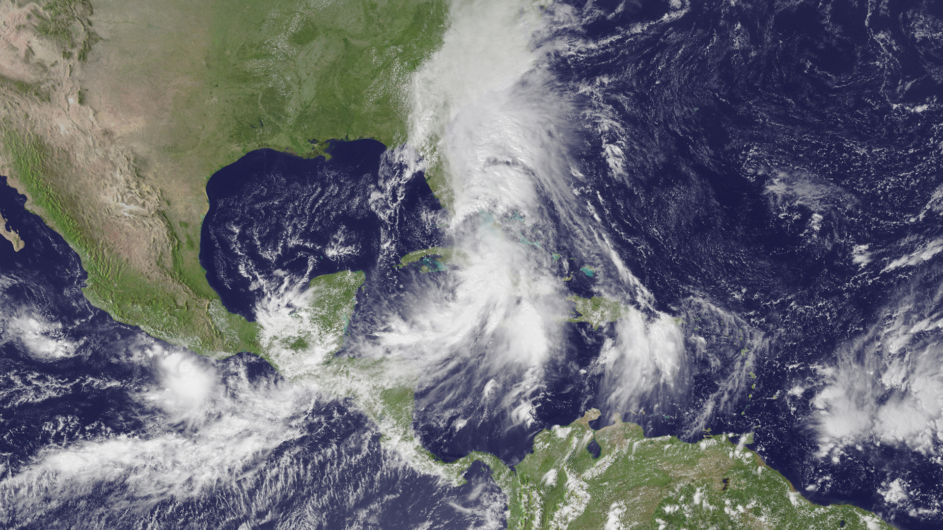 Nicole is currently located southwest of Nassau, Bahamas and is moving towards the northeast at 9 MPH. Winds are currently near 40 MPH. Within the next 24 hours, this system will be absorbed into a low pressure system, producing heavy rainfall and gusty winds, extending from the Carolinas to New England. This GOES-East image was taken September 29 at 1745Z.